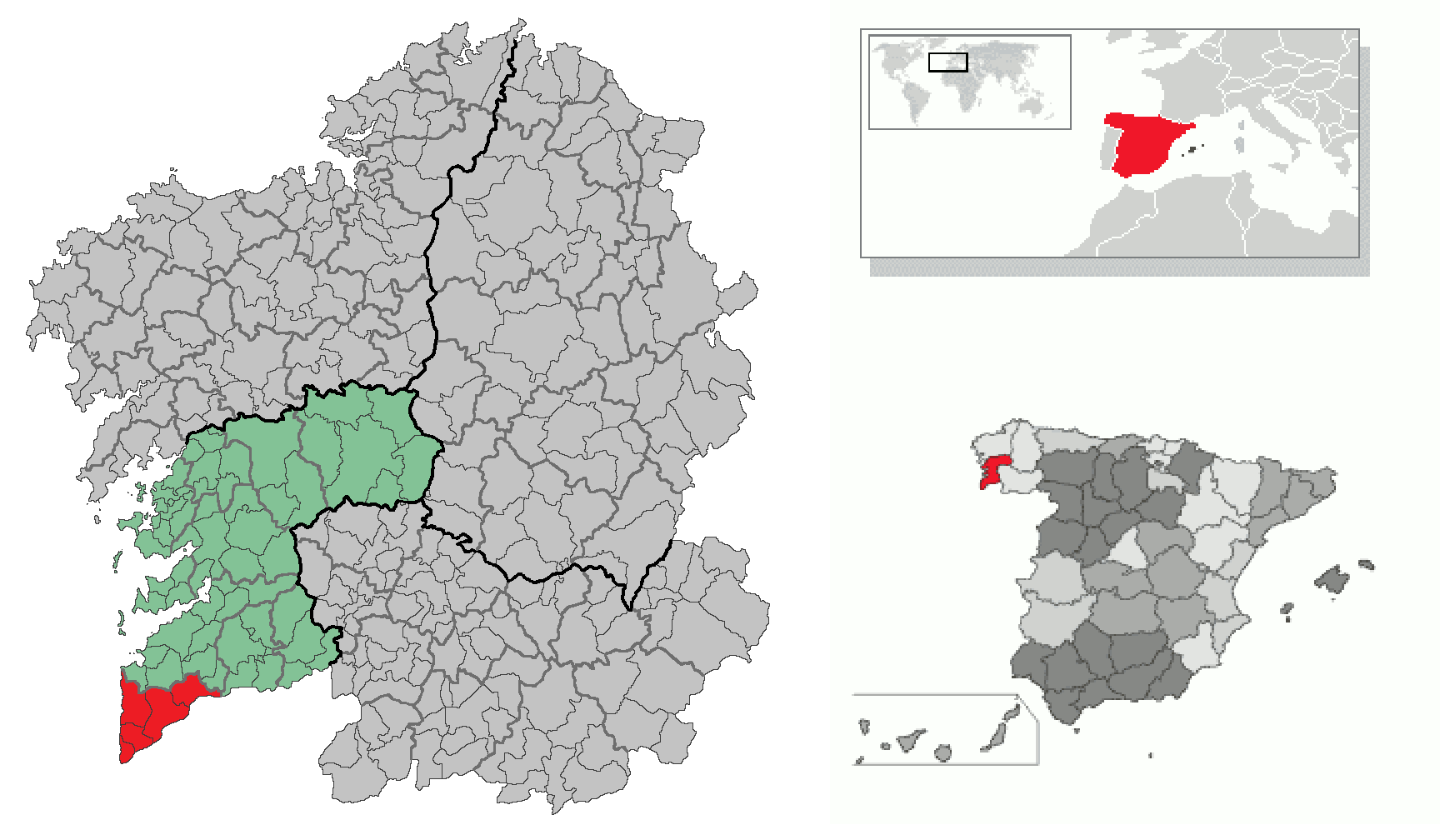 Region of Galicia (Spain) Based in: Image:Location of Betanzos.png Source: Designed by Leoplus. Original picture, designed by Caiser over a work made by Alyssalover.